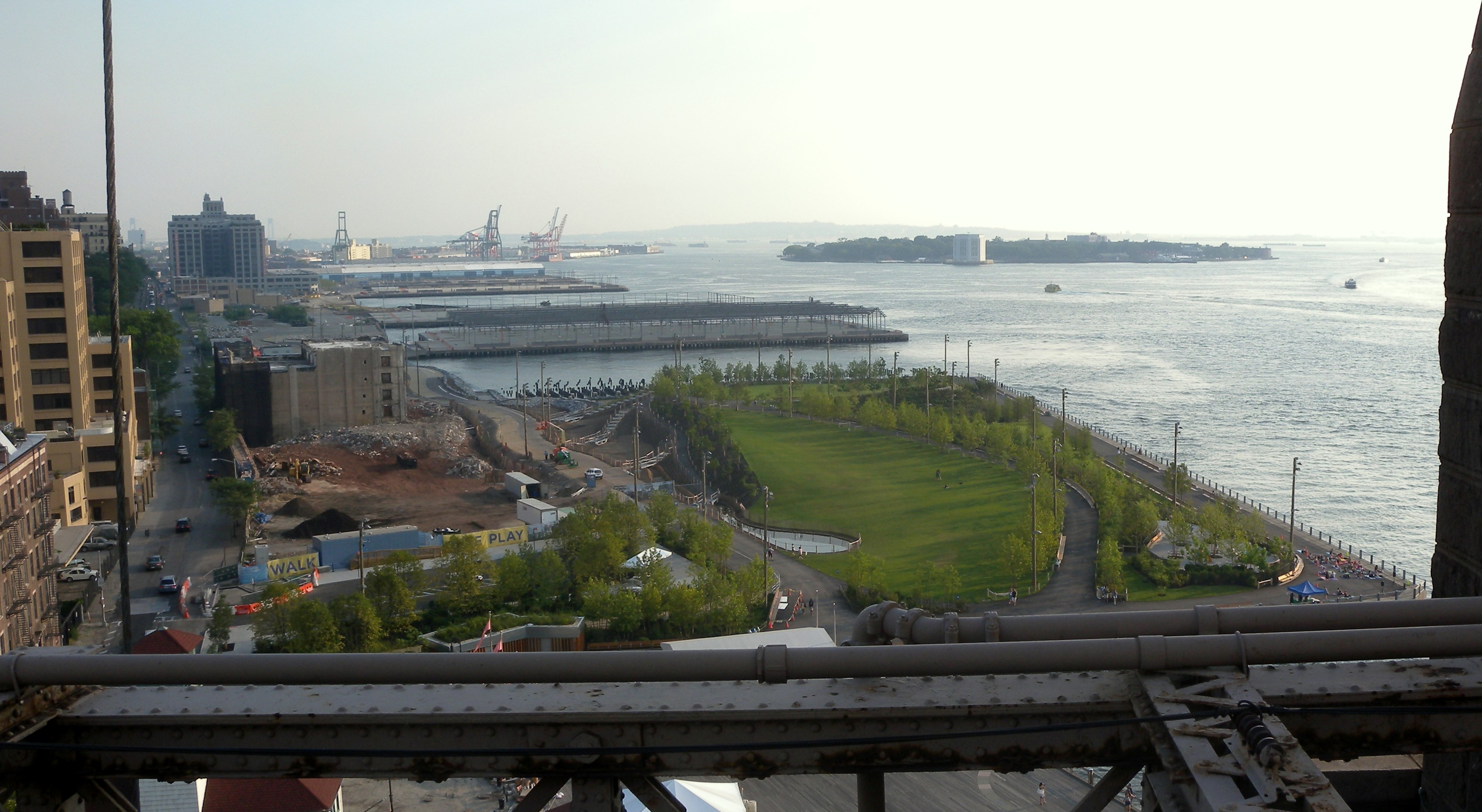 Looking down from Brooklyn Bridge at BB Park on a hazy late afternoon. See also File:Bkln Bridge Park nite construction jeh.jpg